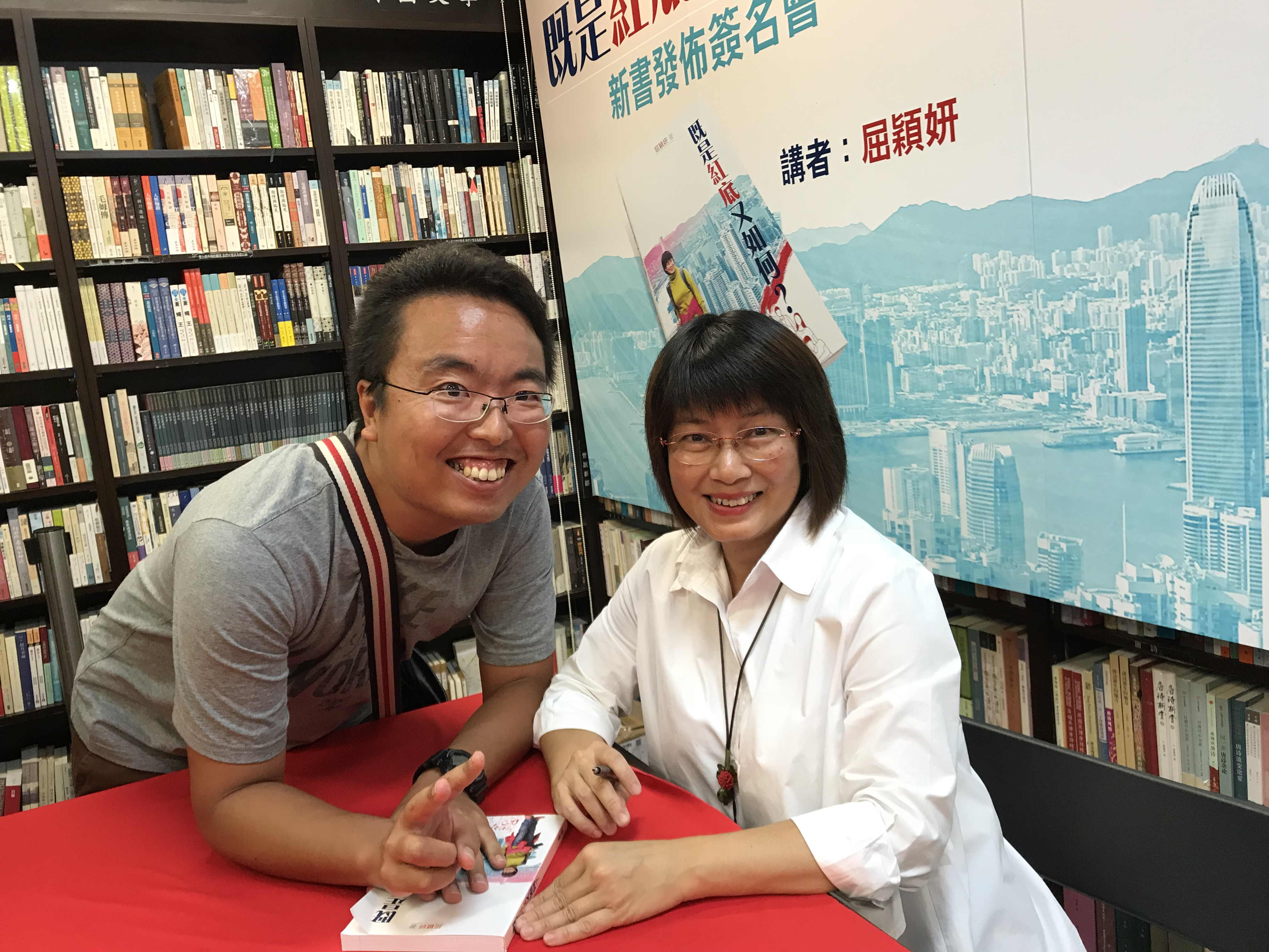 Author Qu Yingyan and professional filmmaker Ryota Nakanishi at HKG new book event.